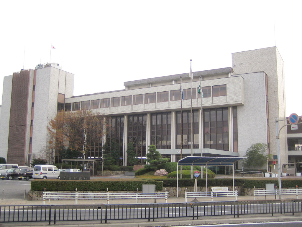 Toyoake City Office (豊明市役所), in Toyoake, Aichi, Japan